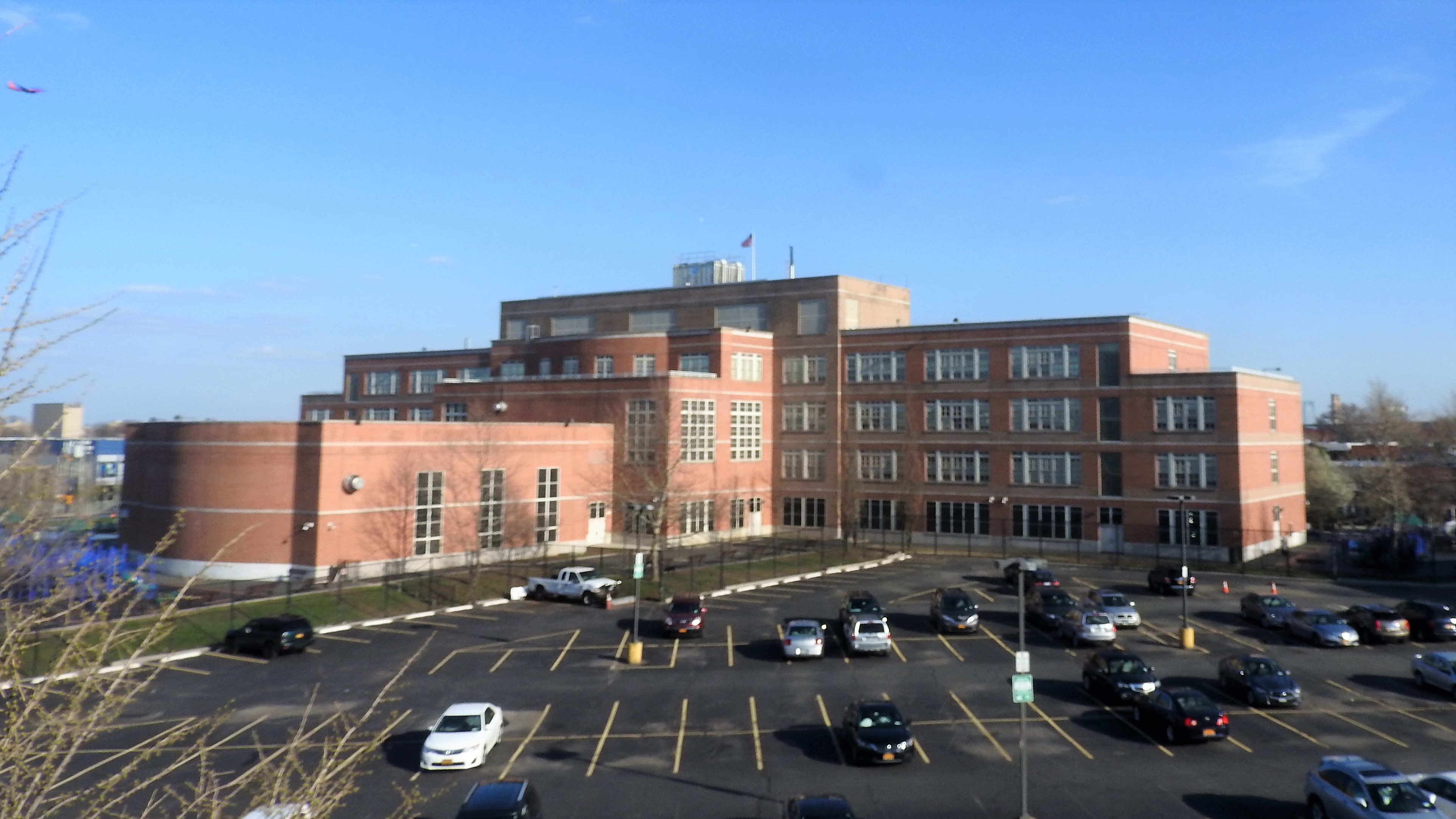 Looking southeast from train at school